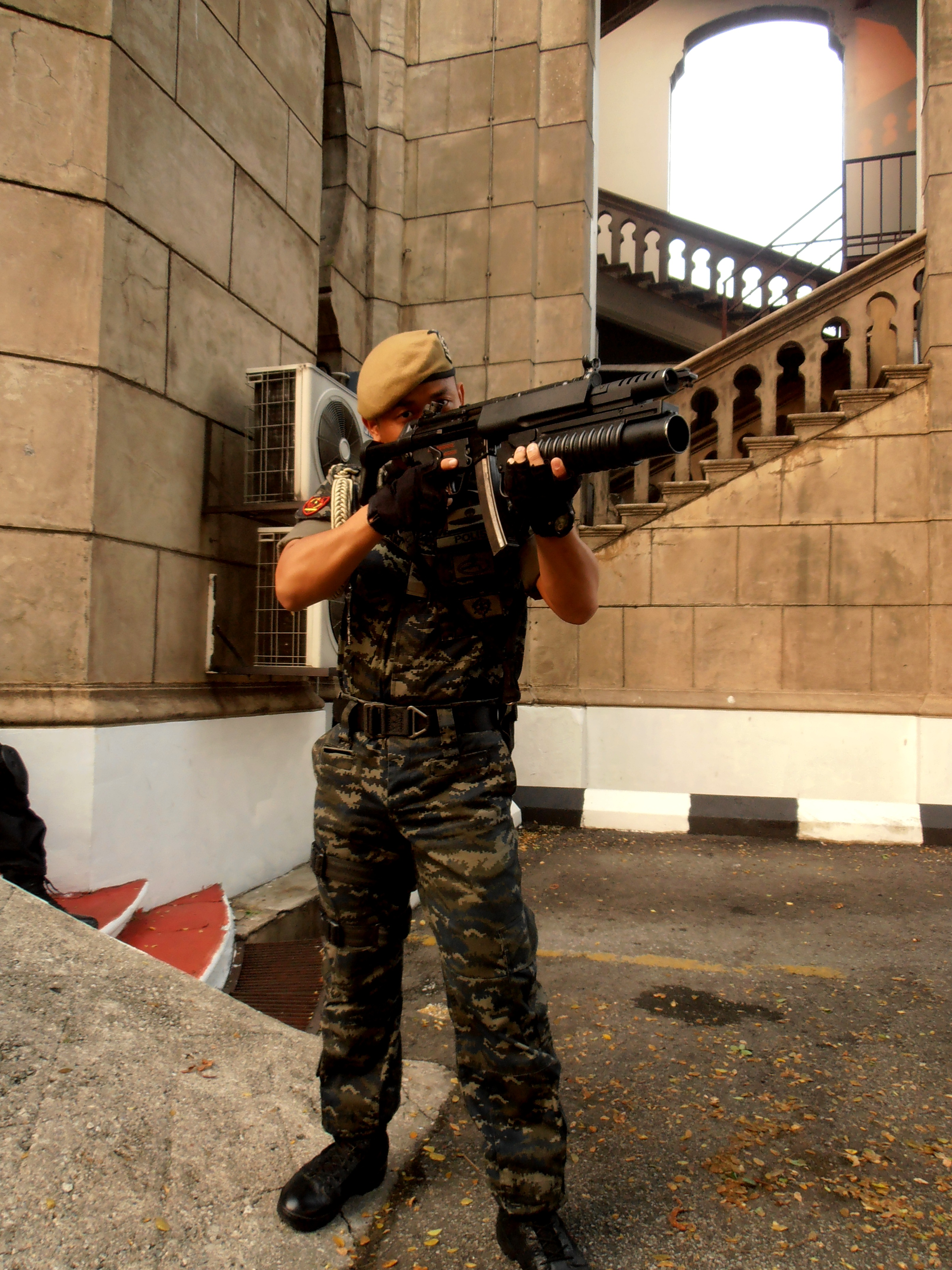 Officer of 69 Commando of Special Operations Command, Royal Malaysia Police with HK MP5A5 fitted with an RM Equipment M203PI grenade launcher.